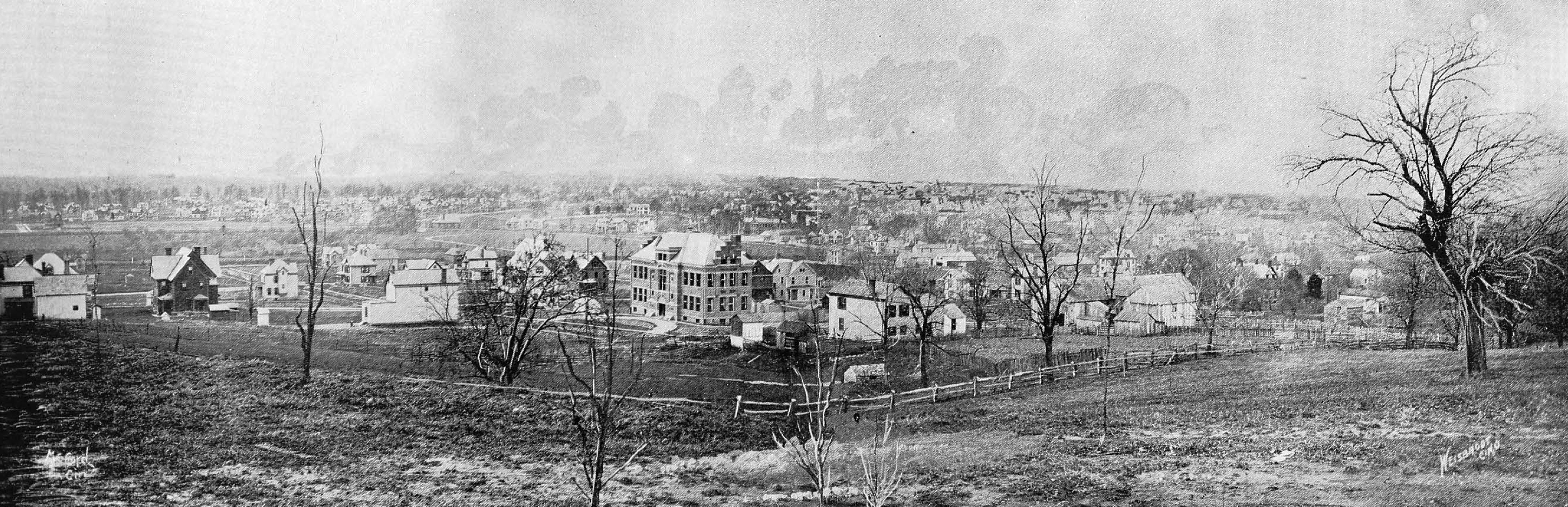 An 1894 panoramic photo of Norwood, Ohio, looking southwest from Grandview Place near Indian Mound. Many of Norwood's streets and neighborhoods were not yet platted at the time this photo was taken. The large field in the center of the photo with oval track is the former Norwood Park, which was used for baseball games, outdoor theater, and traveling circuses. Norwood Park was later replaced by the General Motors Norwood Assembly Plant and today is the site of the Grande Central Station shopping center.